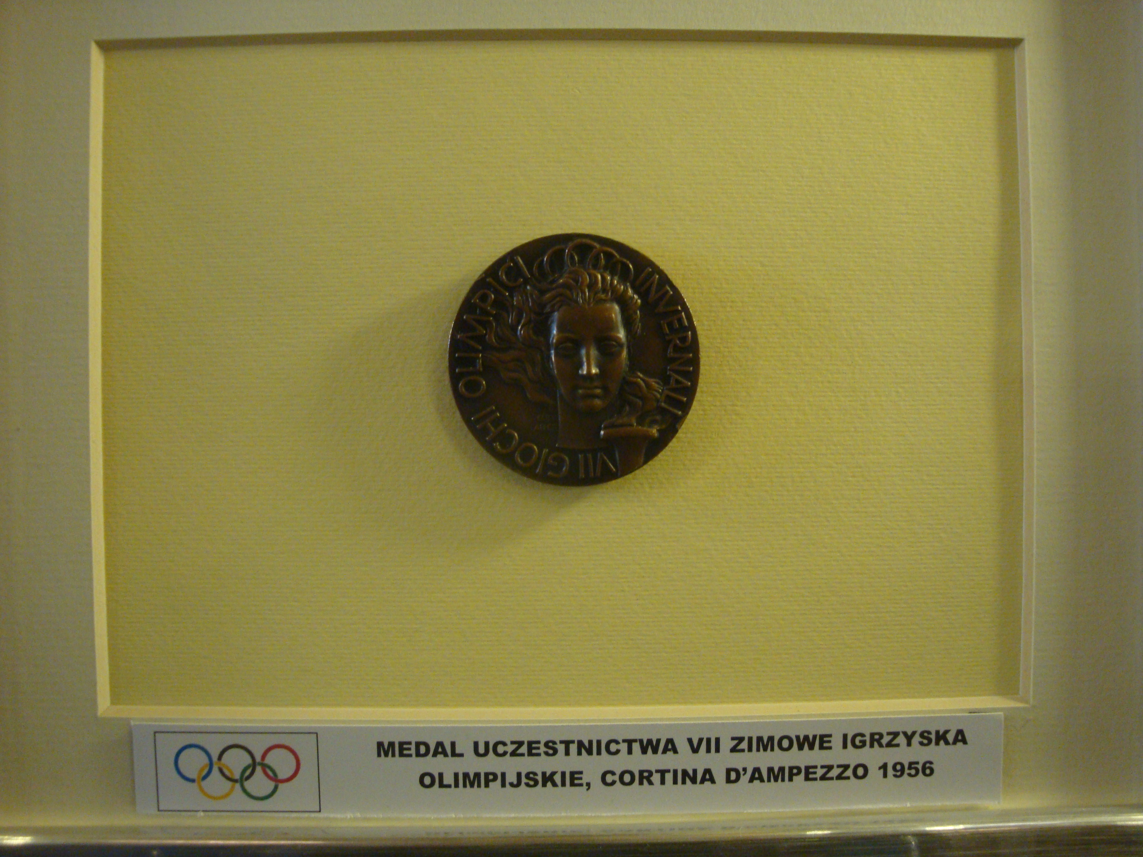 Medal for paticipant of Winter Olimpic Games 1956